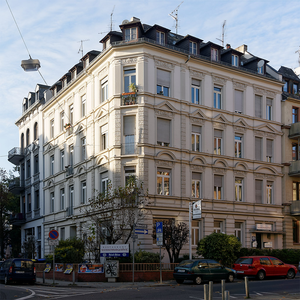 Building: Weißenburgstraße 1, corner Weißenburgstraße in Feldherrenviertel in Wiesbaden-Westend